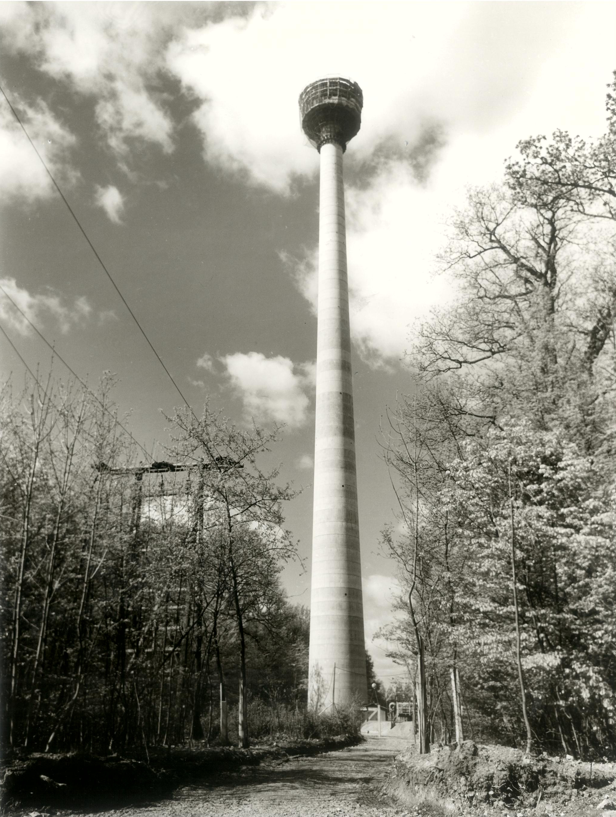 construction of televesion tower Stuttgart (spring 1955)